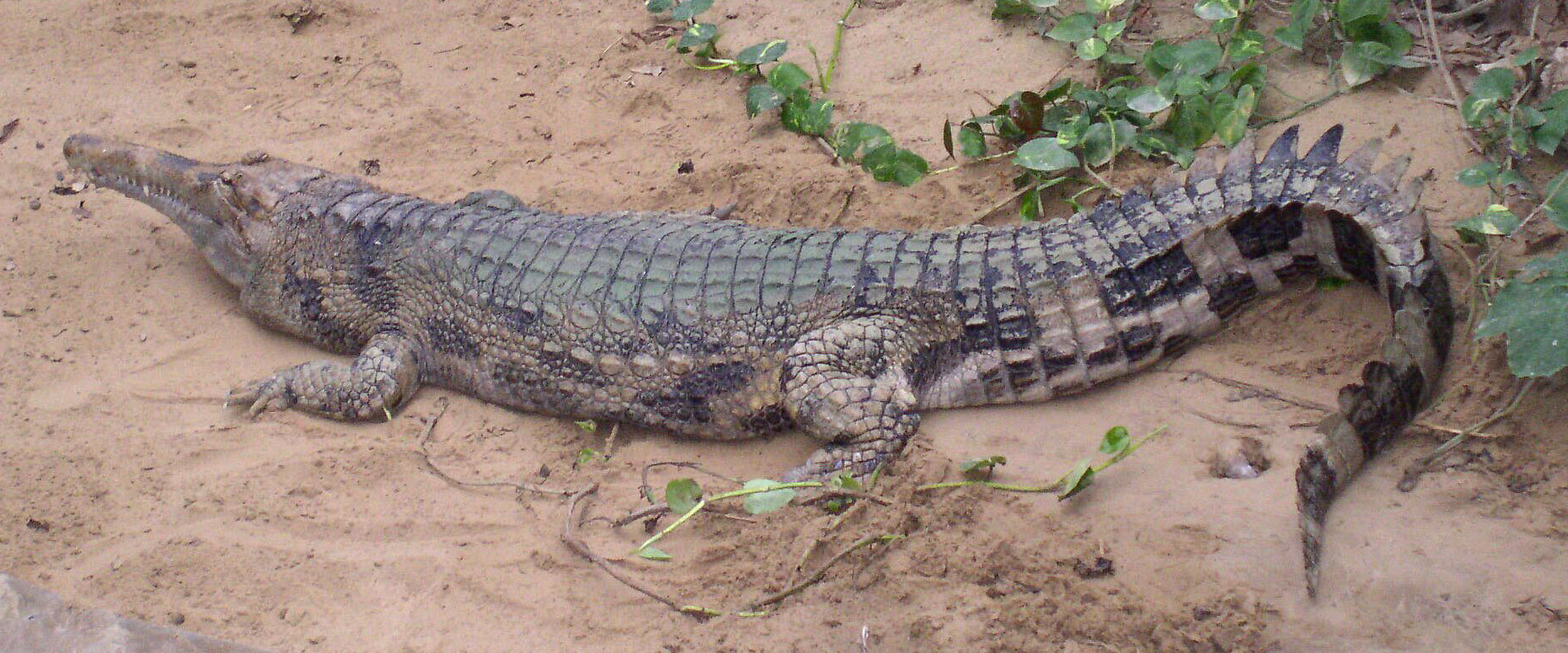 False gharial (Tomistoma schlegelii), taken at the Tierpark Berlin, Germany